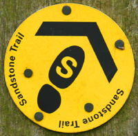 Footprint marker for the Sandstone Trail